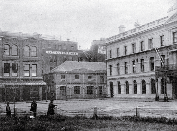 The first publication was 11 Jan. 1851 from a small office in Norwich Quay, Lyttelton. Since then it shifted twice until the need for expansion had seen the paper set up here in Cathedral Square, Christchurch. Shown here is the portion of the company's building which was erected in 1862. The five-storey building in the background, with frontage to Gloucester Street, was constructed in 1884. The building on the right is Warner's Hotel, which was constructed in 1901 or 1902.